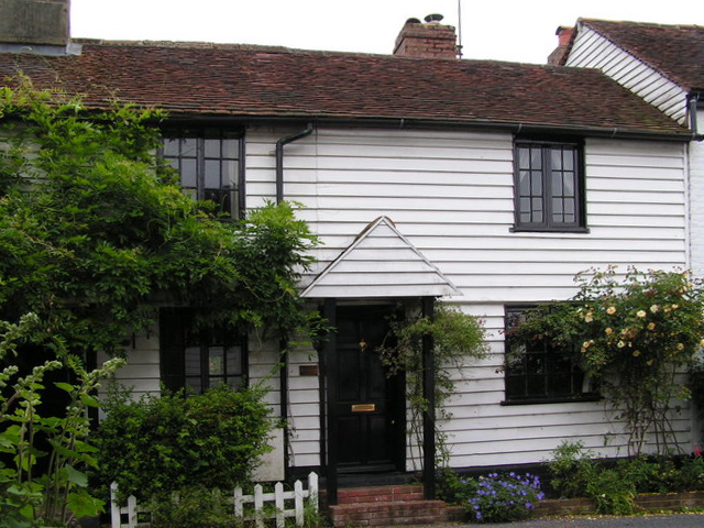 Weatherboarded Cottage, Petteridge. This style of building is very common in rural west kent